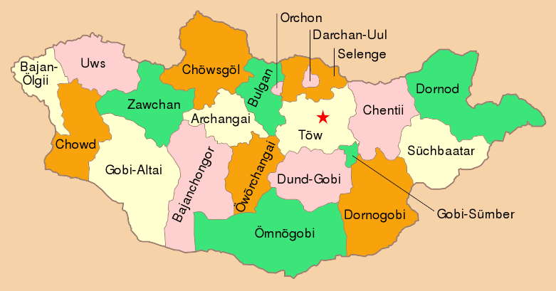 Map of Mongolia with all aimags in different colors, in german language.